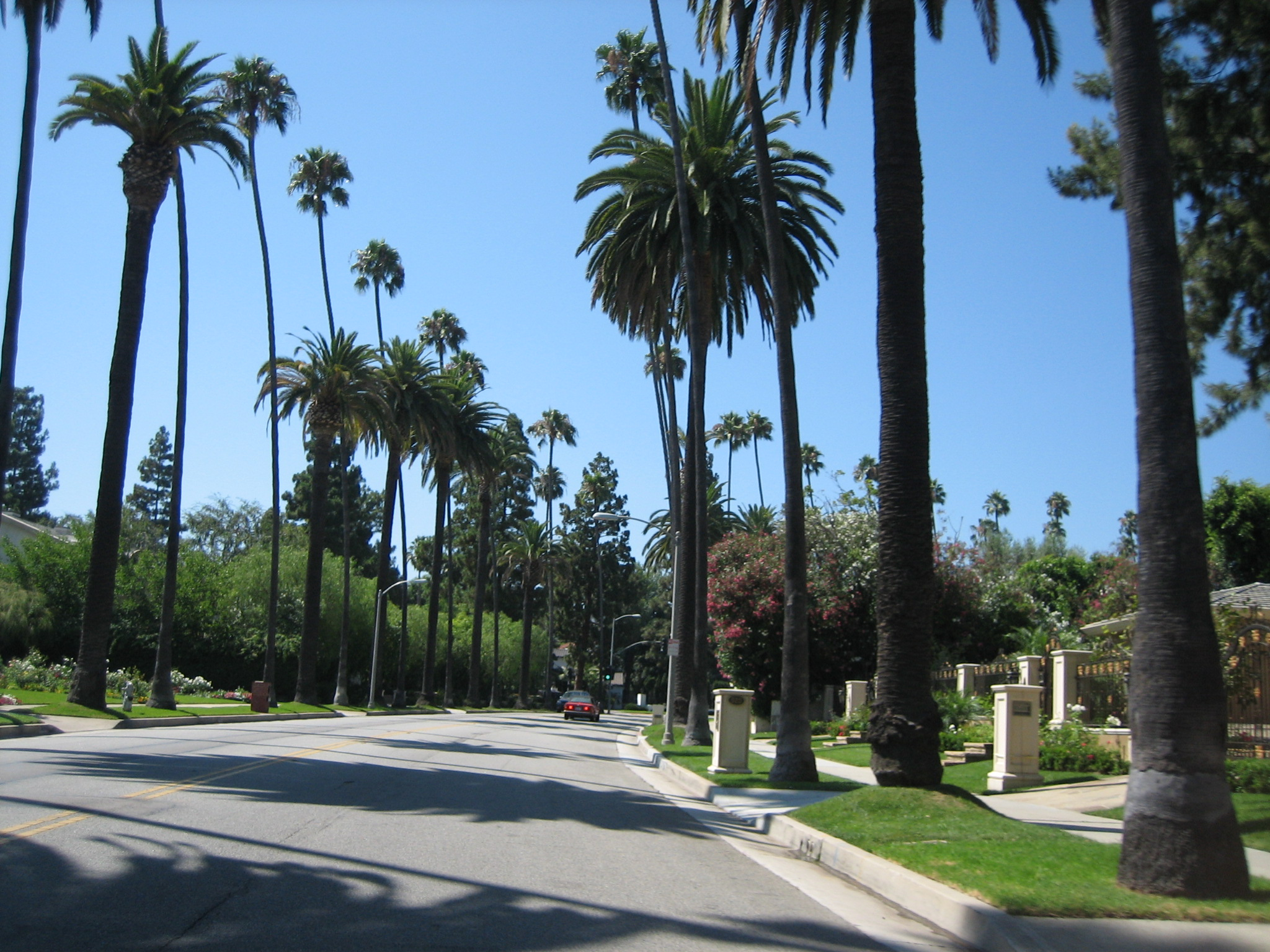 Palms along a street in Beverly Hills, California.